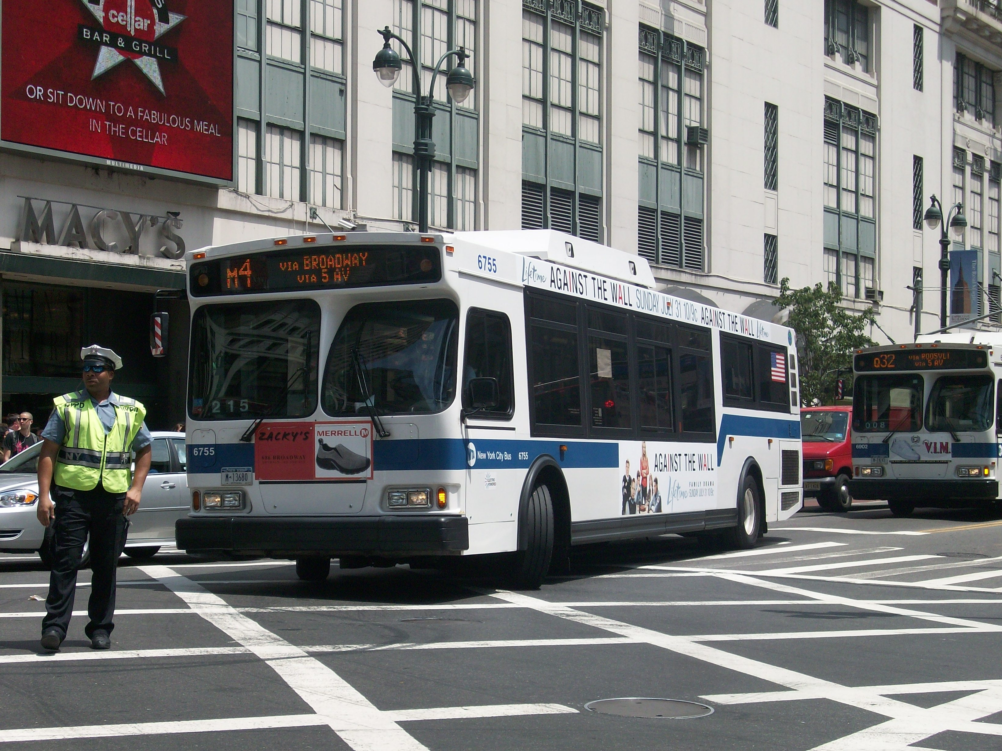 MTA bus in New York